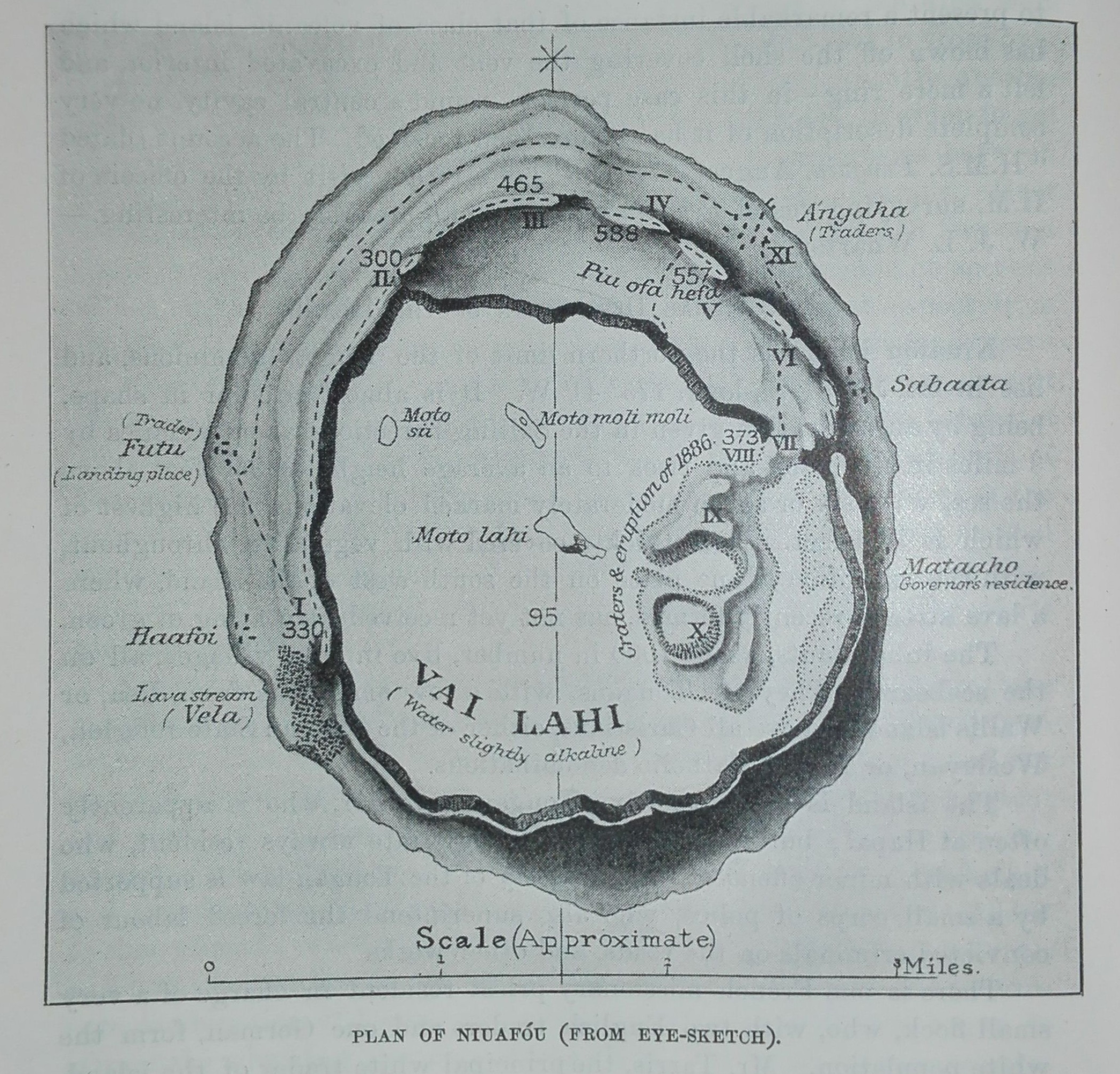 Map of Niuafou (Niuafo'ou)